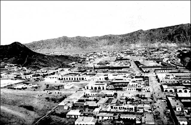 Türkmenbaşy